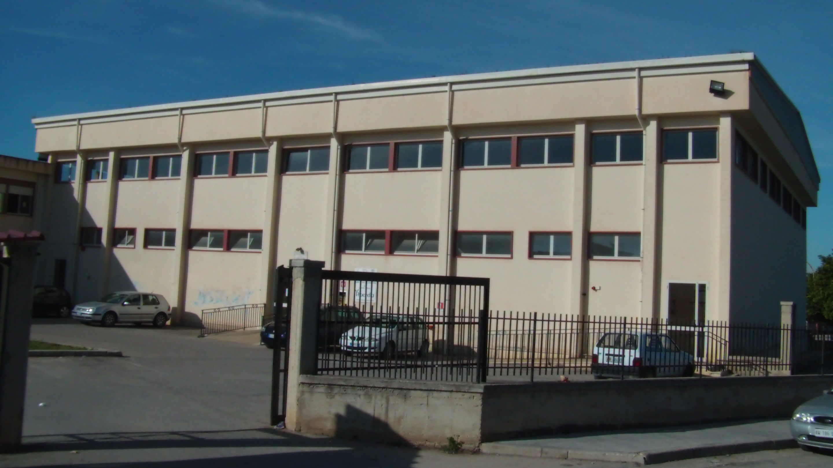 PalaTornambè, Ribera (Ag)